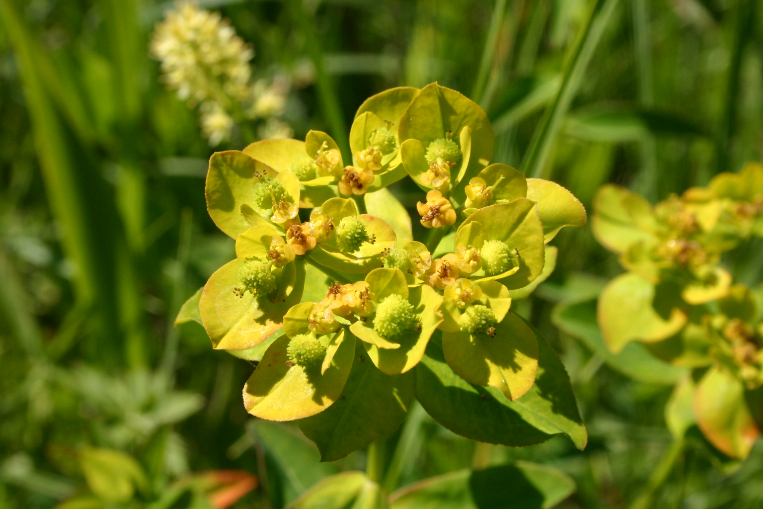 Euphorbia verrucosa